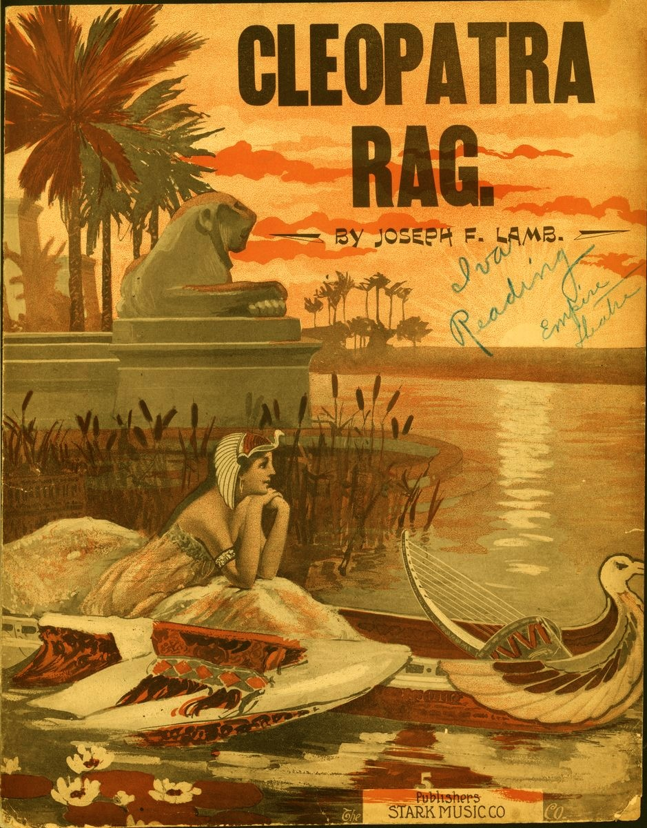 Cleopatra Rag, 1915